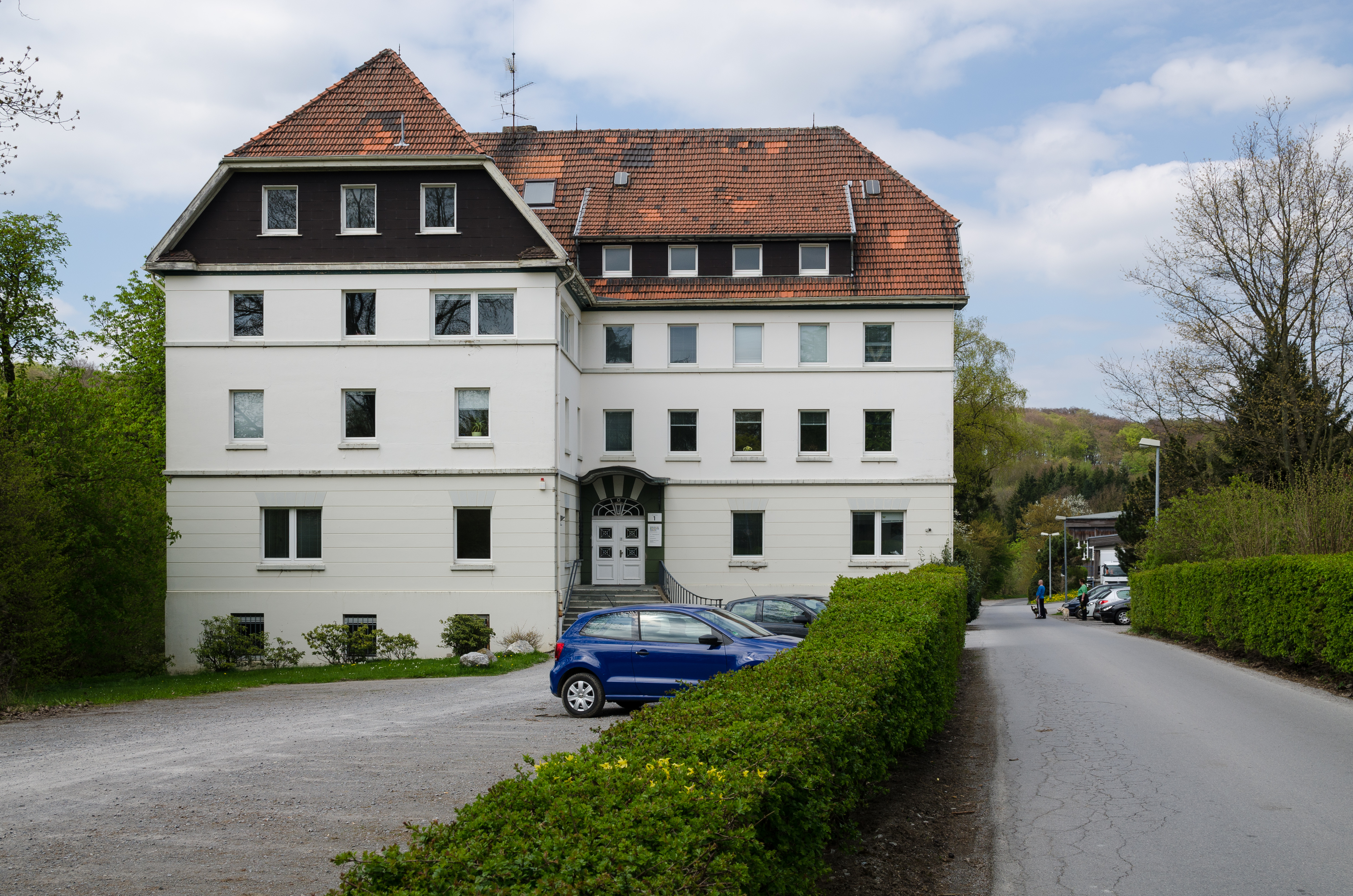 Main house of Deaconess Aprath (Wülfrath, Germany)